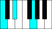 C minor chord